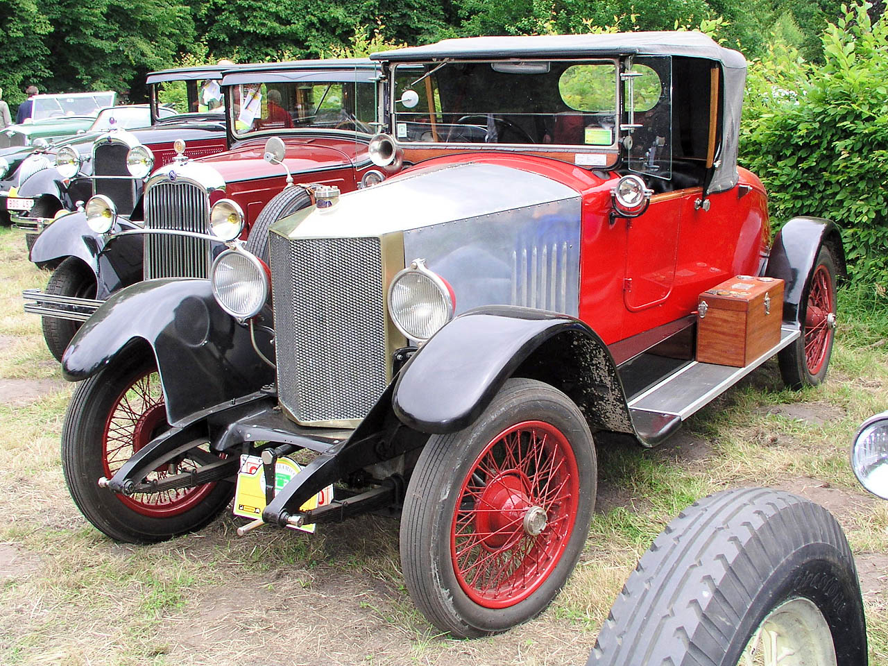 12/14 HP 4-cylinder car with roadster body, made in Belgium by SA L'Auto Métallurgique; left front-side view